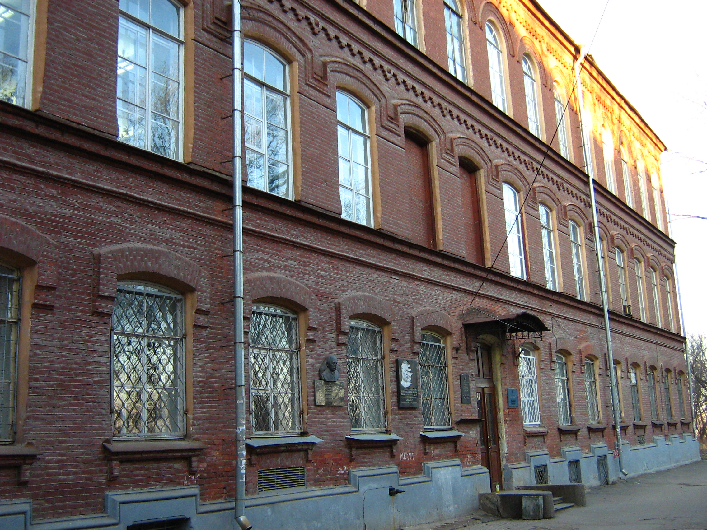 Chemical Corps HPI, one of the oldest buildings Institute.